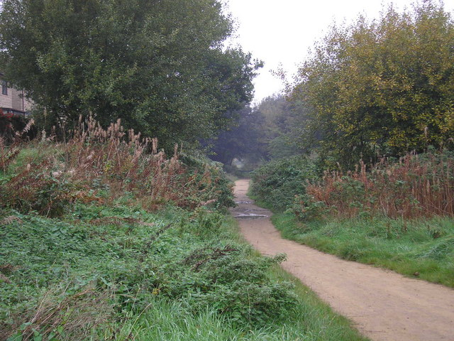 Dismantled railway The trackbed of a Great Northern line which used to run from Bradford Exchange Station to Shipley. The line was closed to passengers in 1931 after only one person objected. It was then used for goods and stock transfers until it was lifted in the 1960s.